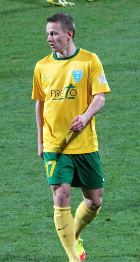 Photo - Slovak footballer Róbert Pich